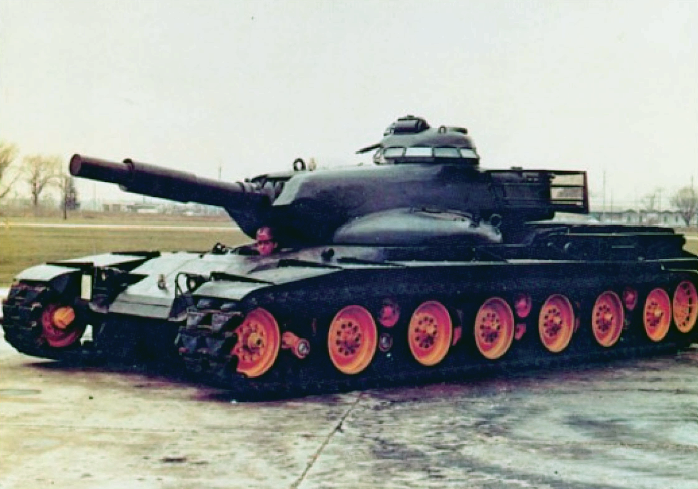 T95 prototype with an M60A2 forerunner turret